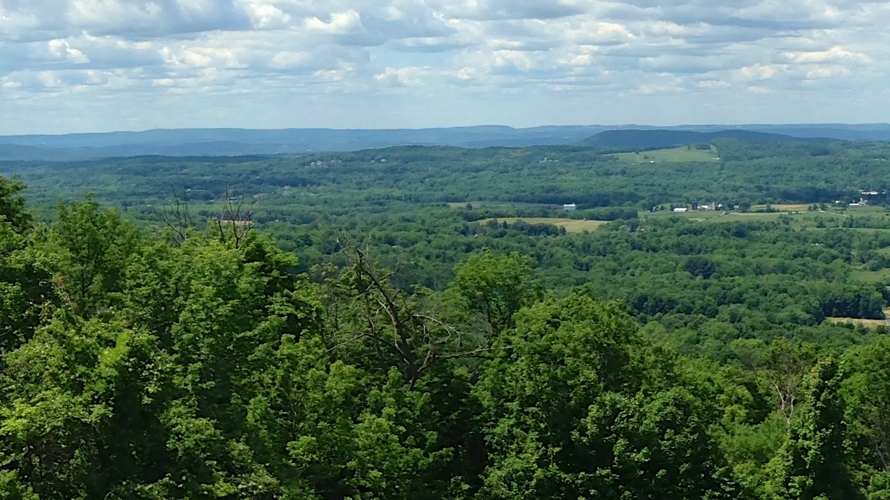 Panorama of the Warwick Valley, photo taken near the Bellvale Farms Creamery. In the distance, from the south, are the Kittatinny Mountains and the High Point Monument in New Jersey, and the Shawangunk Ridge in New York. In front of these distant ridges, are the peaks Mount Adam and Mount Eve in the Black Dirt Region.